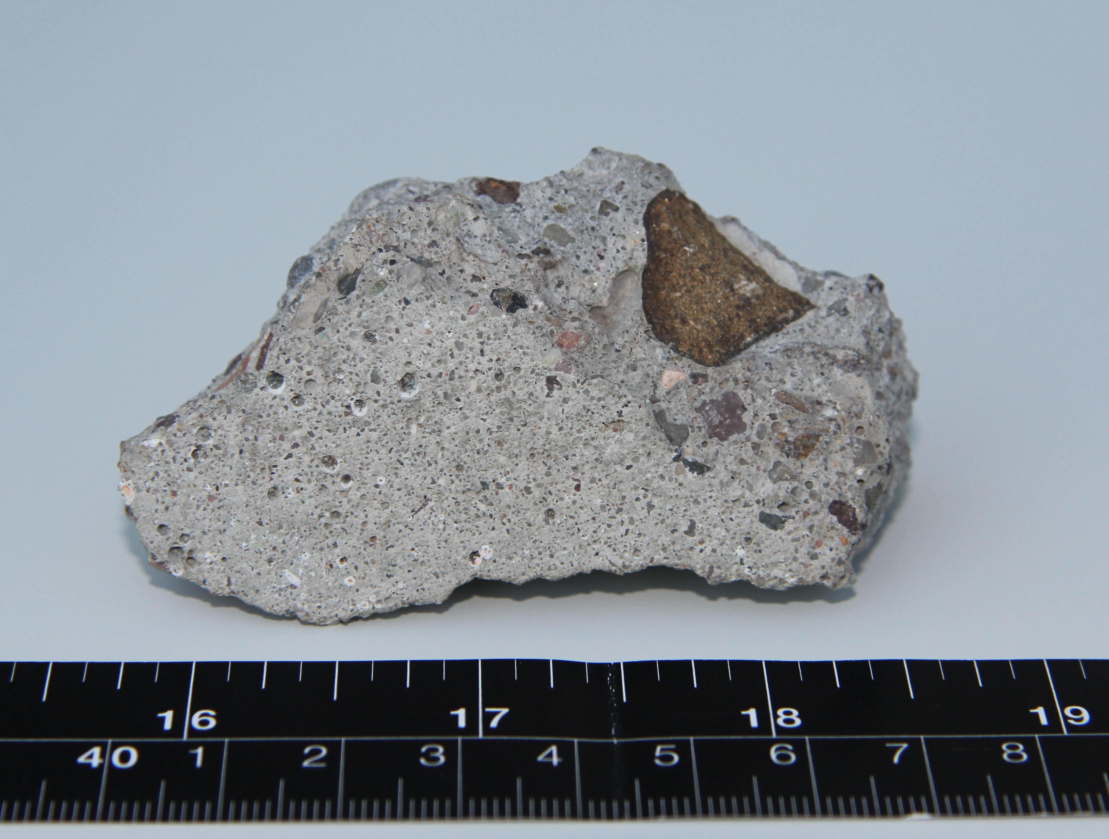 Concrete sample coming from Berliner wall.